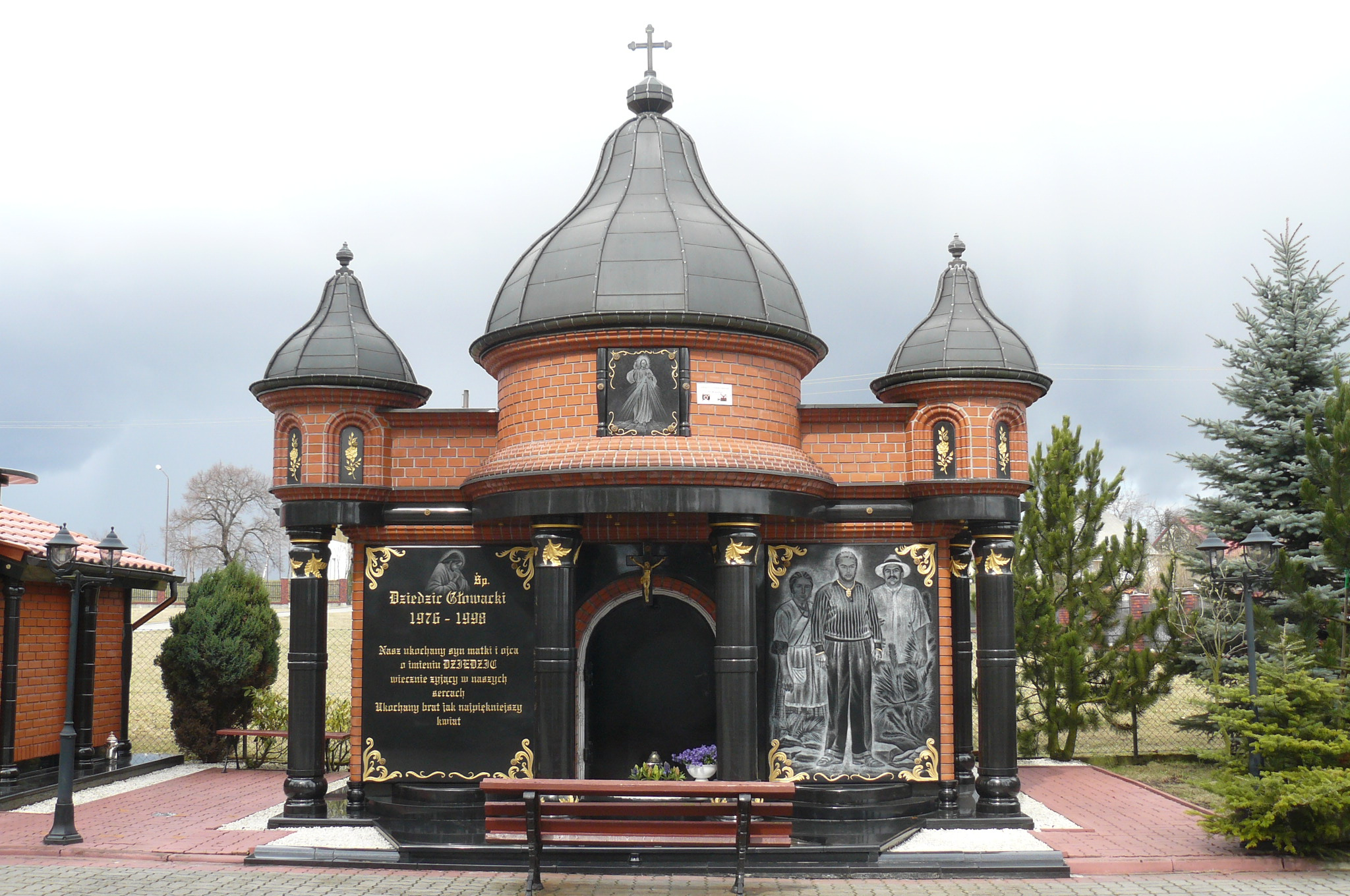 Witkowo, Gypsy Graves.